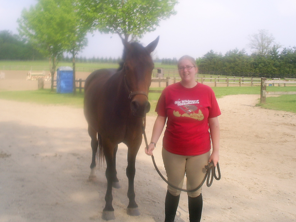 Me, and my lesson horse Jag. You would never have guessed we would be under a tornado warning in about half an hour after this picture was taken.